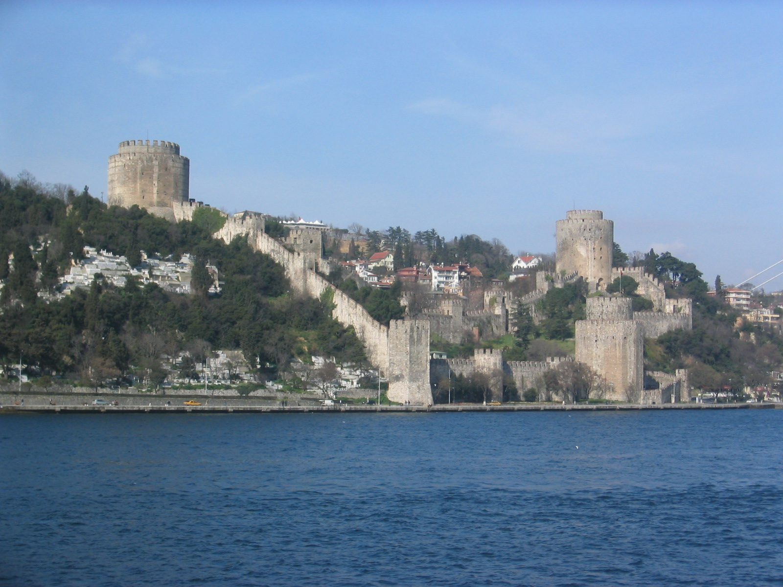 Istanbul, Turkey